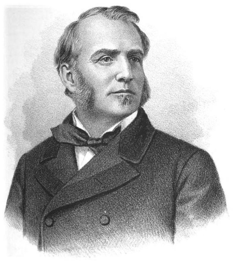 Lucius Fairchild, 10th Governor of Wisconsin, circa 1866